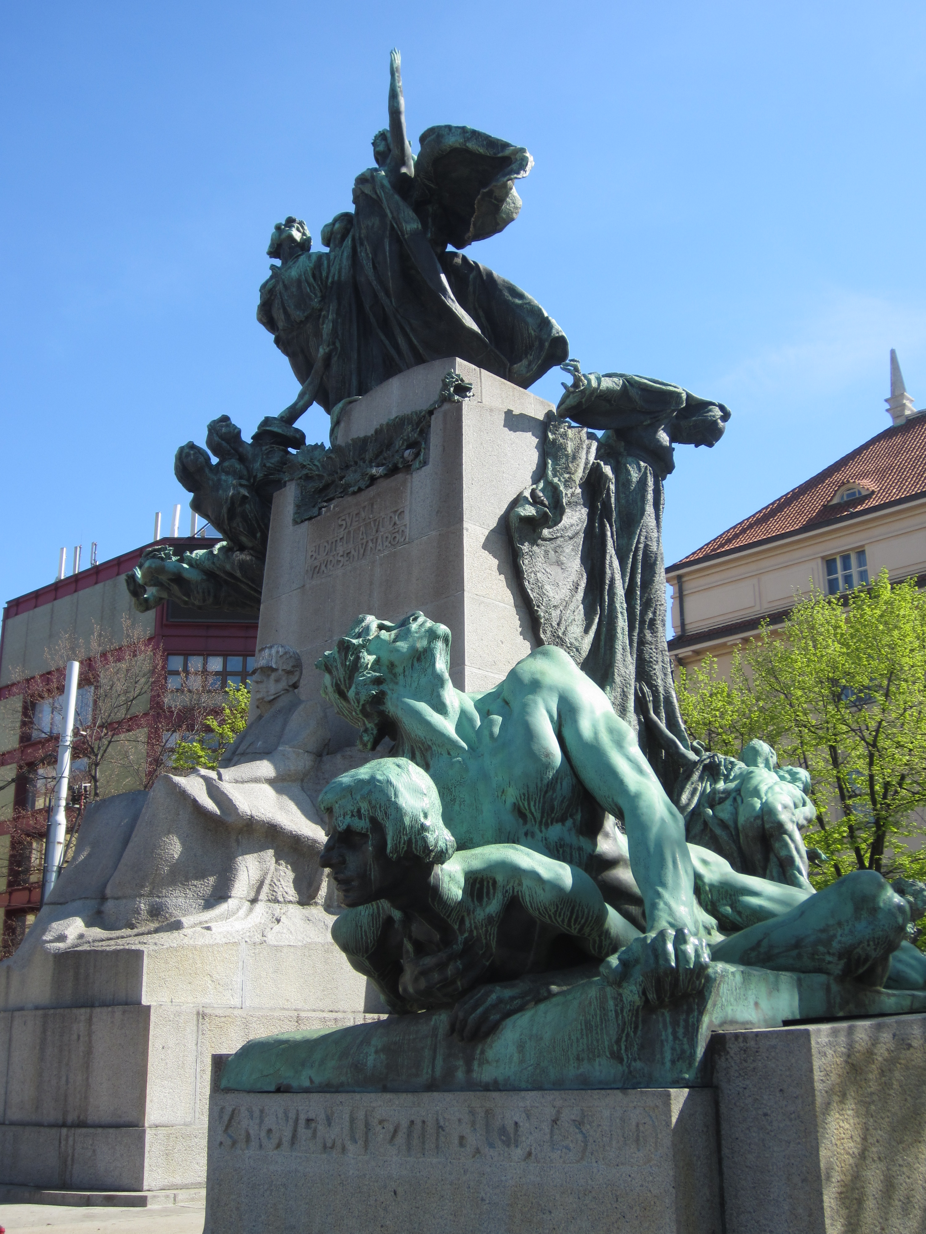 Prague, Czech Republic, April 2016